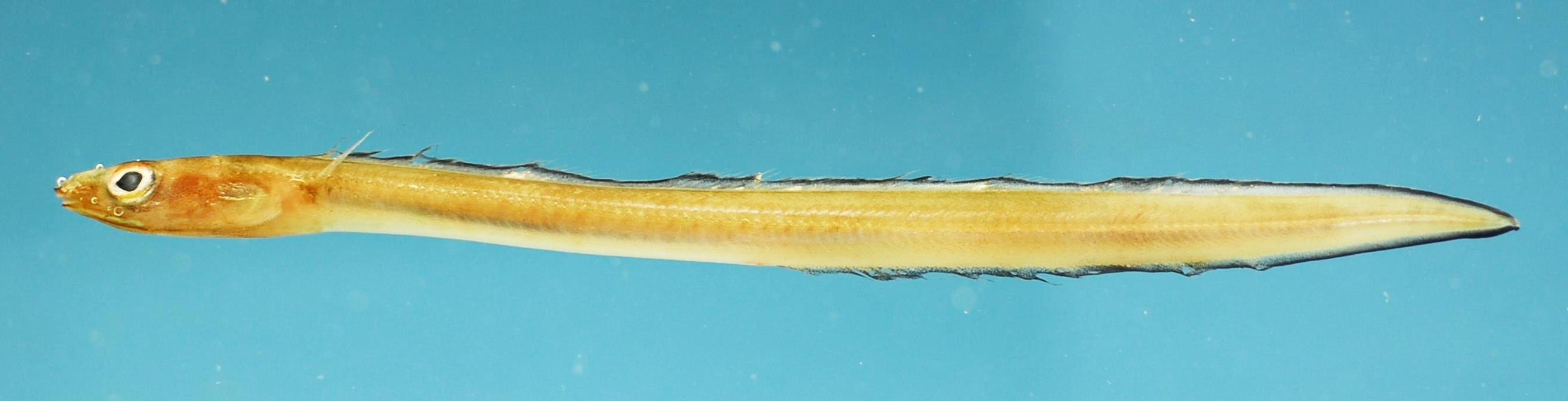 Cropped image of taxon in file name